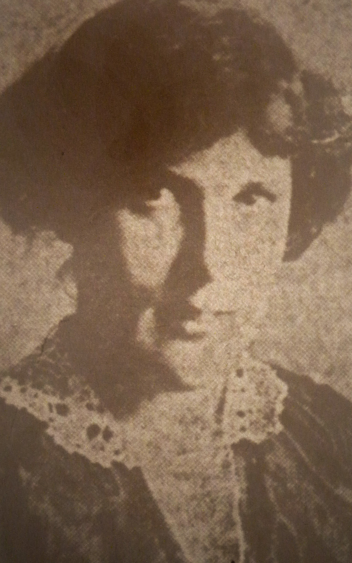 Juliet Stuart Poyntz, American trade union functionary, radical activist, and purported Soviet spy